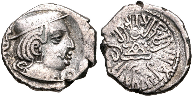 Rudrasena II Circa 256-278 CE. AR Drachm (16mm, 2.27 g, 10h). Dated year 183 of the Śaka era (AD 261). Head right, wearing close-fitting cap / Three-arched hill; group of five pellets to right.